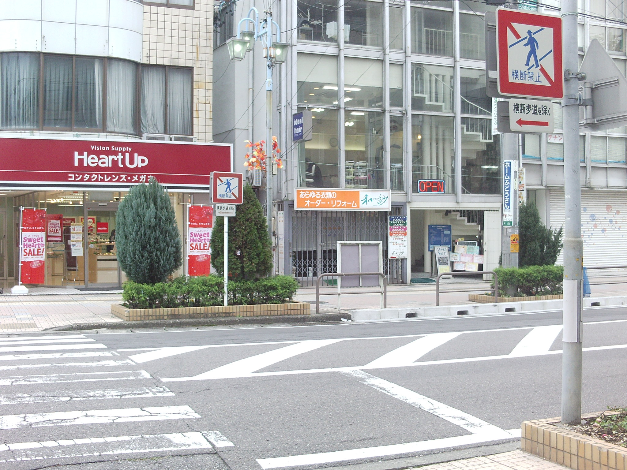 Aichi prefectural road No.187 in Inuyama, Inuyama, Aichi. No crossing.